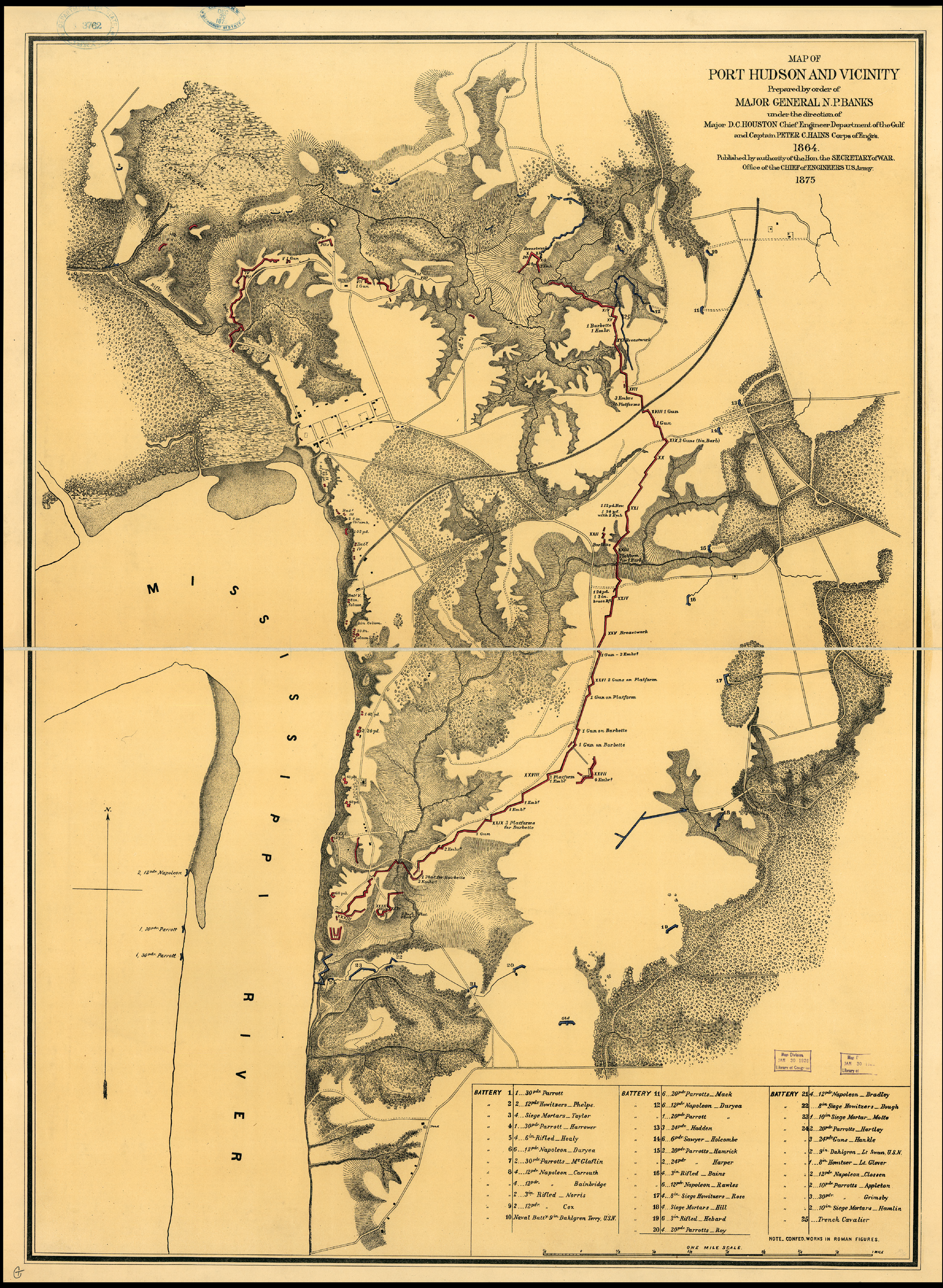 Map of Port Hudson and vicinity Prepared by order of Major General N. P. Banks under the direction of Major D. C. Houston, Chief Engineer, Department of the Gulf and Captain Peter C. Hains, Corps of Engr's. 1864.